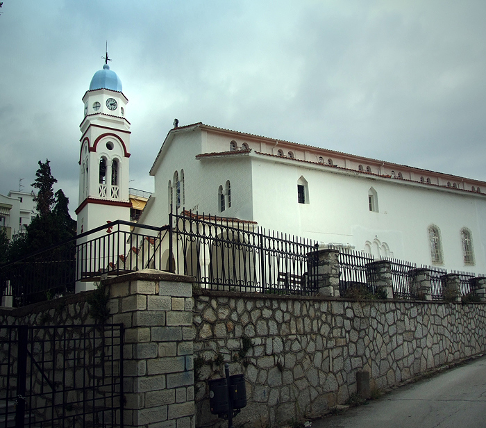 The church of Saint Nicholas in Polygyros, Chalkidiki